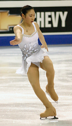 Yukari Nakano competes her long program at the 2004 Four Continents Championships in Hamilton, Ontario.